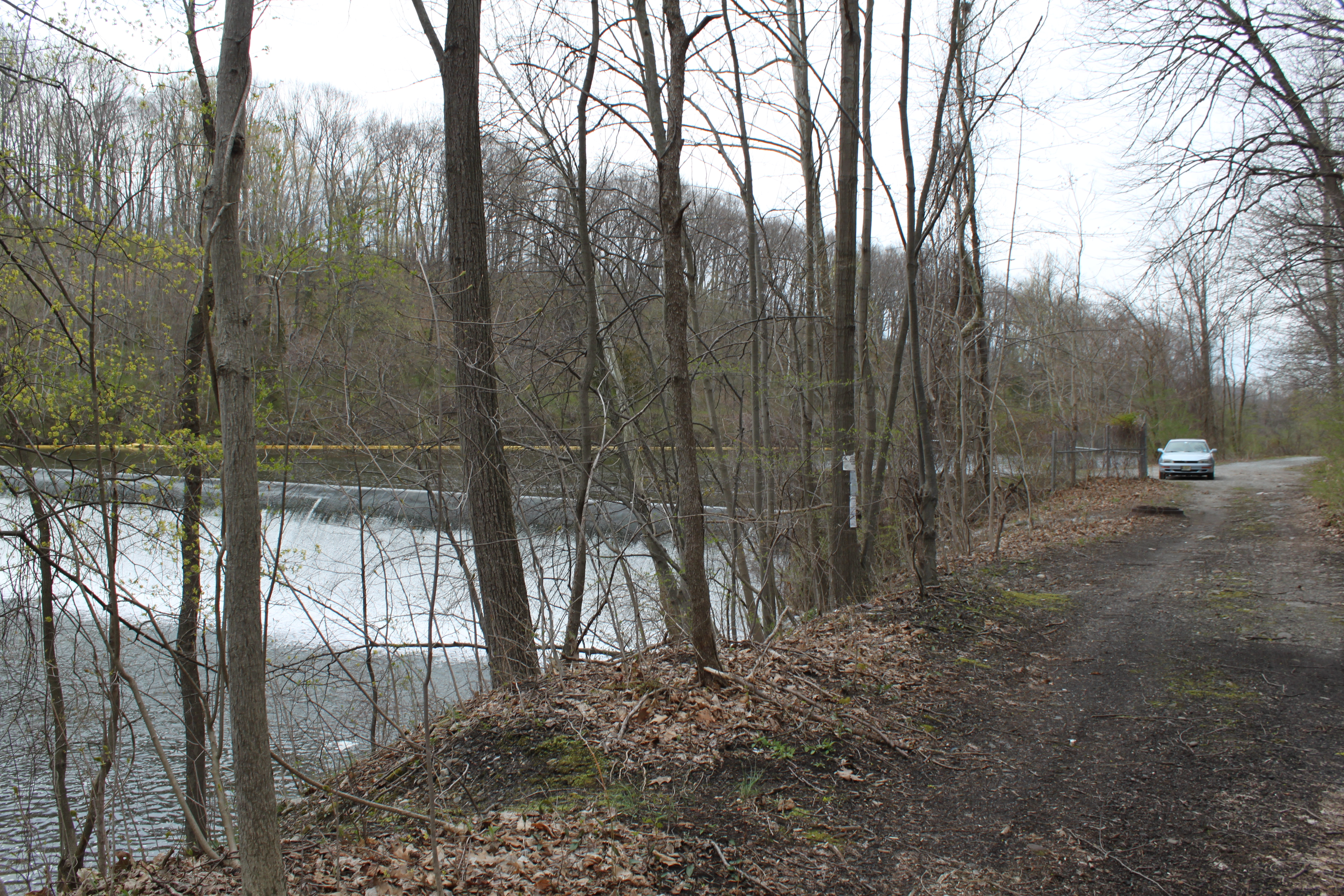 Chuck Walsh, power dam near Columbia, NJ, April 2011.